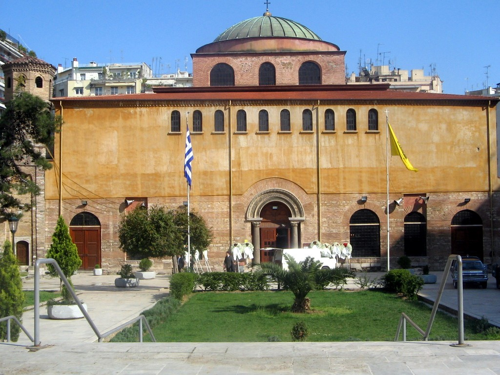 The Agia Sofia, a church in Thessaloniki, Greece.